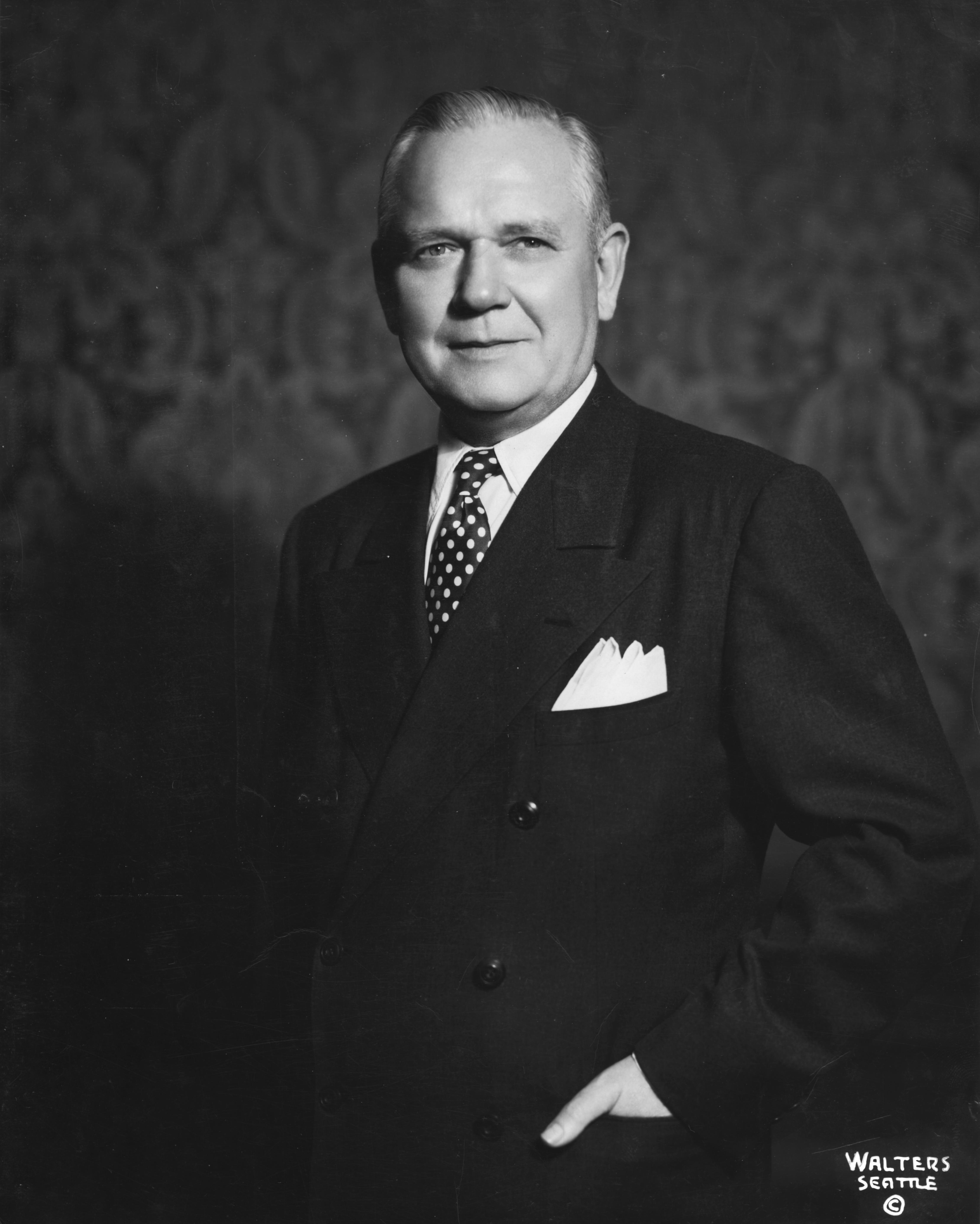 Photo of Monrad Charles Wallgren, Governor of Washington from 1945–1949. U.S. Senator from Washington